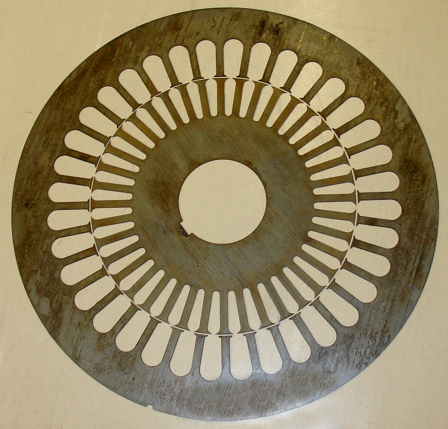 Stator and rotor laminations from an induction motor (around 40 cm outer diameter)